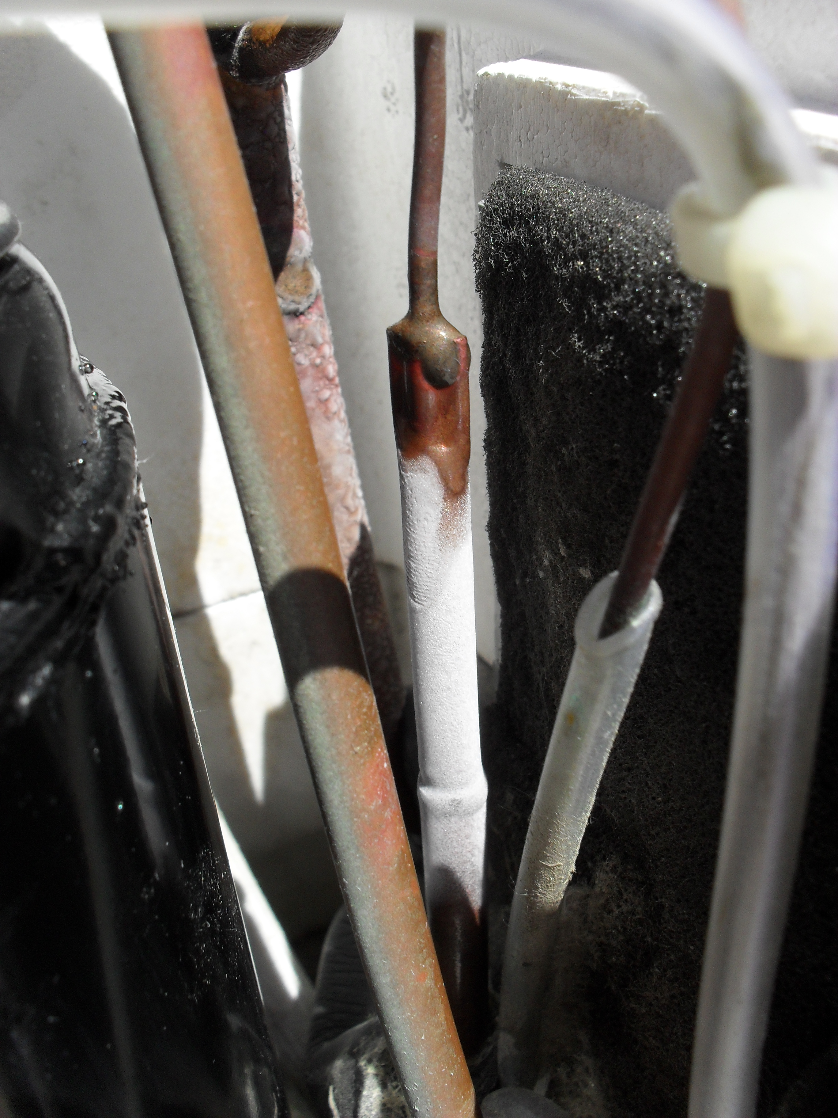 Capillary metering device